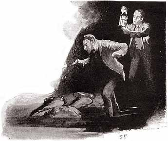 Illustration of the Sherlock Holmes short story The Five Orange Pips, which appeared in The Strand Magazine in November, 1891. Original caption was "WE FOUND HIM FACE DOWNWARDS IN A LITTLE GREEN SCUMMED POOL."